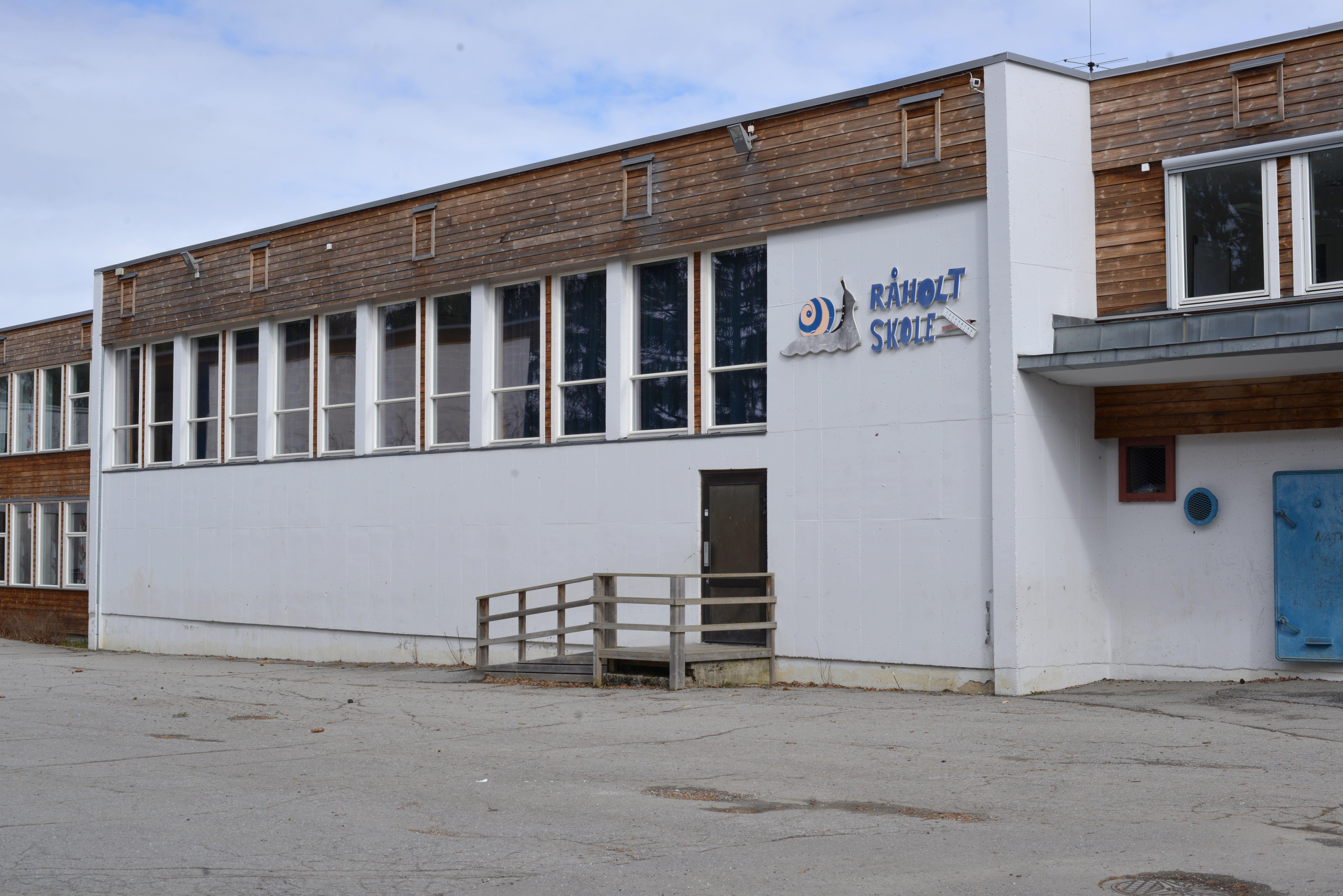 Råholt school